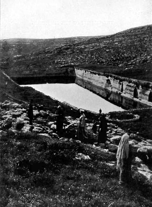 Solomon pool - Palestine 1912